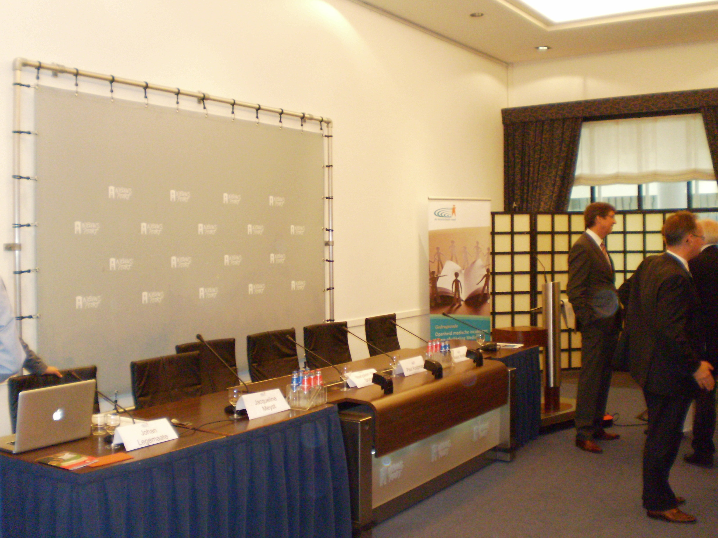 Newsroom in press centre Nieuwspoort, The Hague, after a press conference